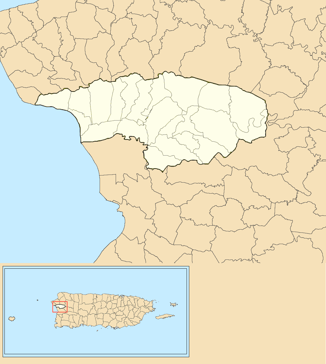 Barrios in the municipality of Añasco Aug. 2, 2020 version Map scale is 1:100,000